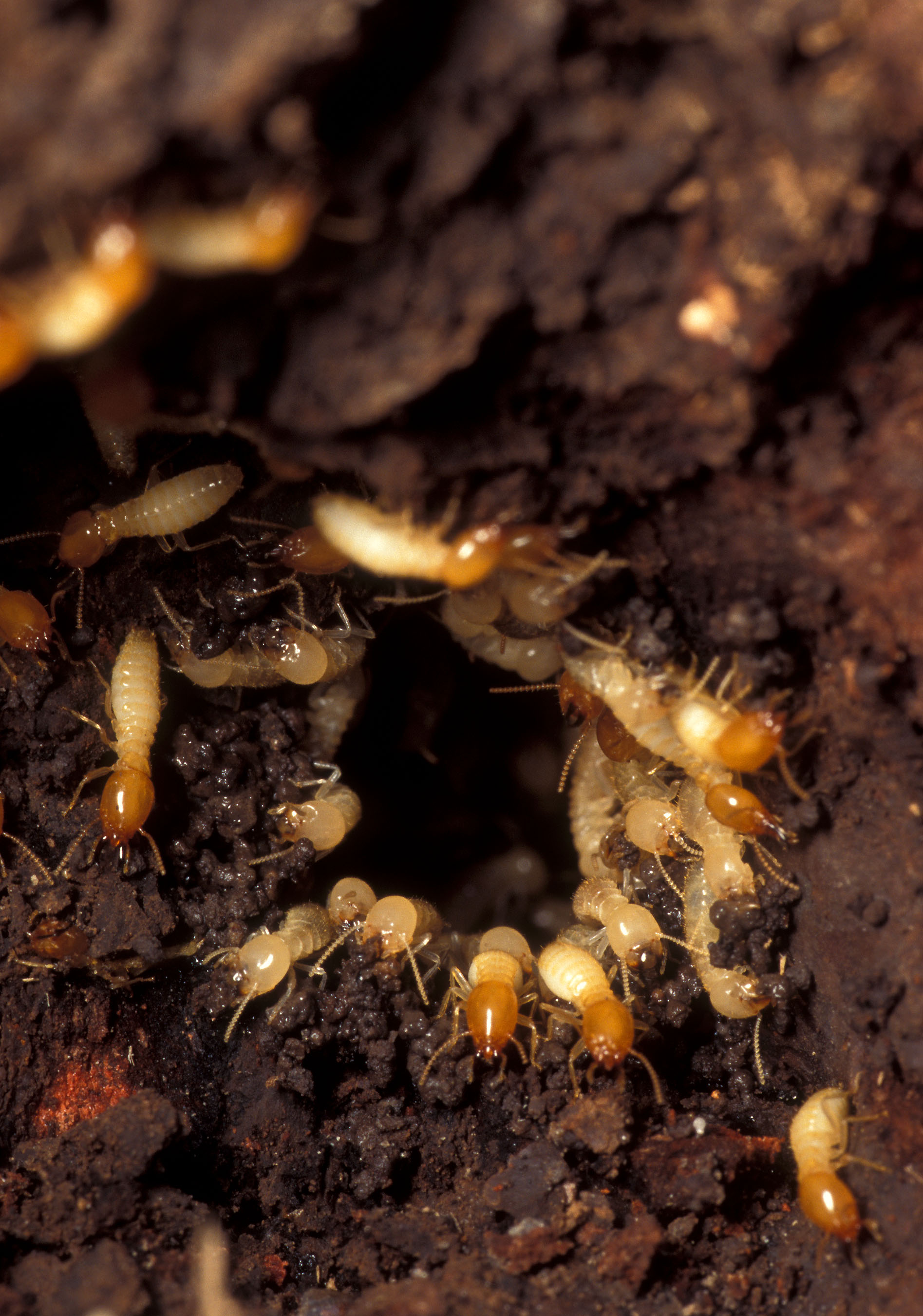 Damage to a nest of Formosan subterranean termites brings hoards of workers and soldiers with dark, oval shaped heads scrambling to repair the hole. Termites shown about 4 times actual size. USDA photo by Scott Bauer.